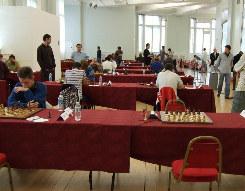 Liverpool World Museum, William Brown Street.